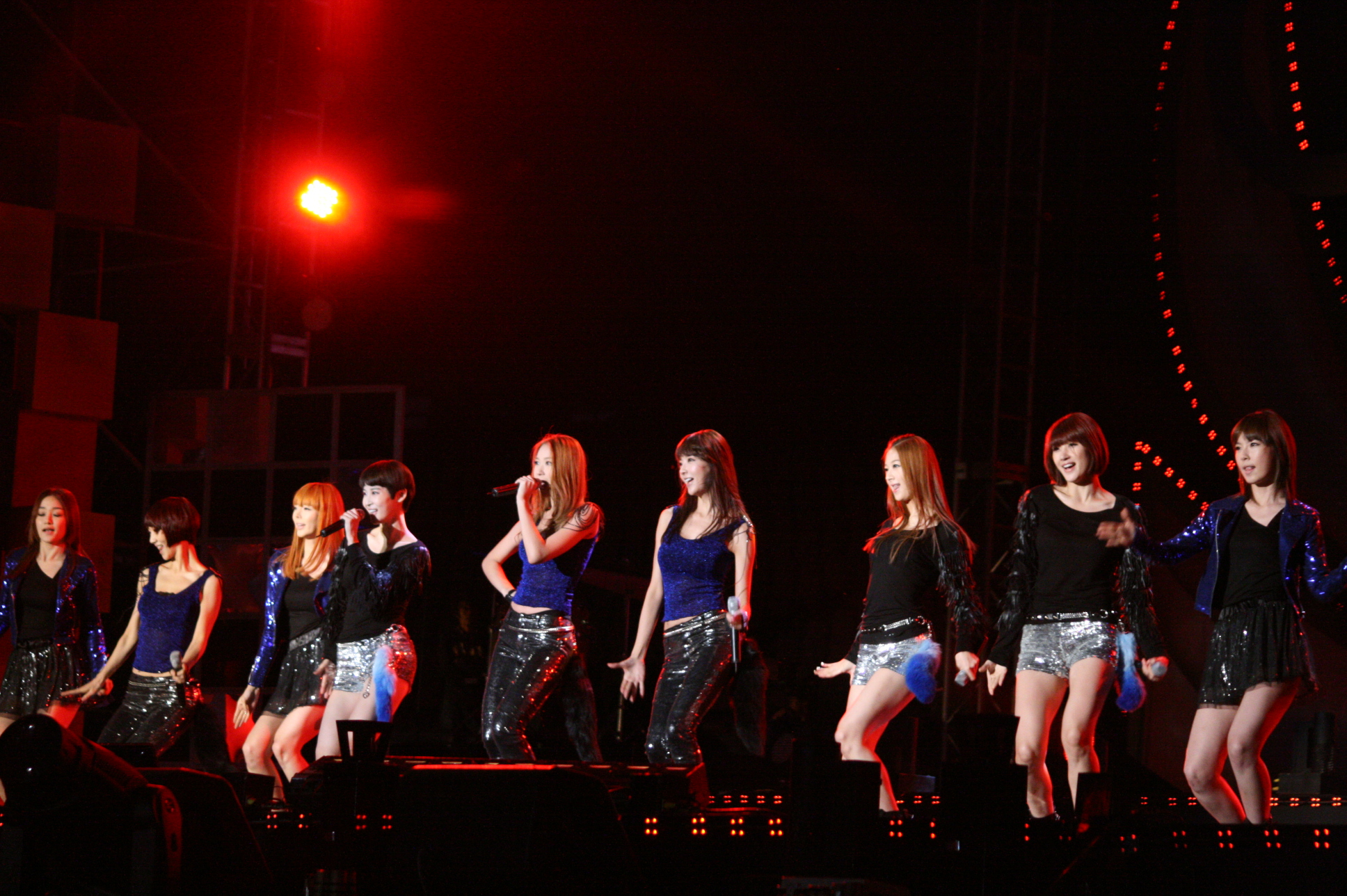 Nine Muses in 2010 Asia Song Festival